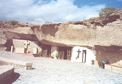 Statue of San Hermano Pedro at his shrine near El Médano.